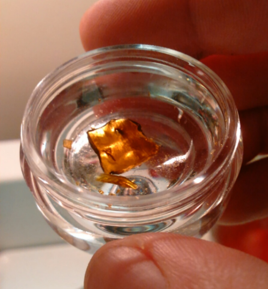 A marijuana concentrate known as shatter, produced in Alaska and containing 74% thc.